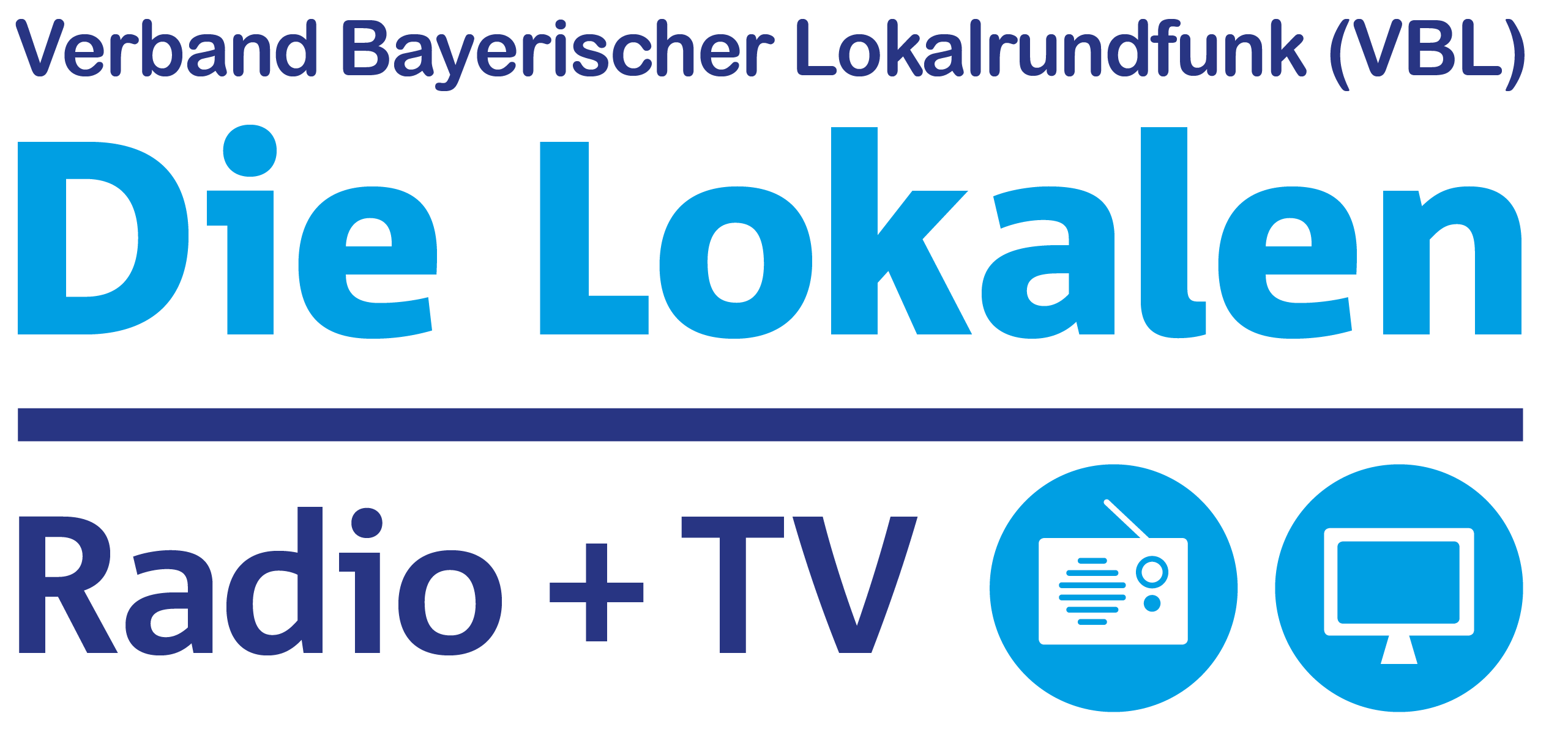 VBL-Logo